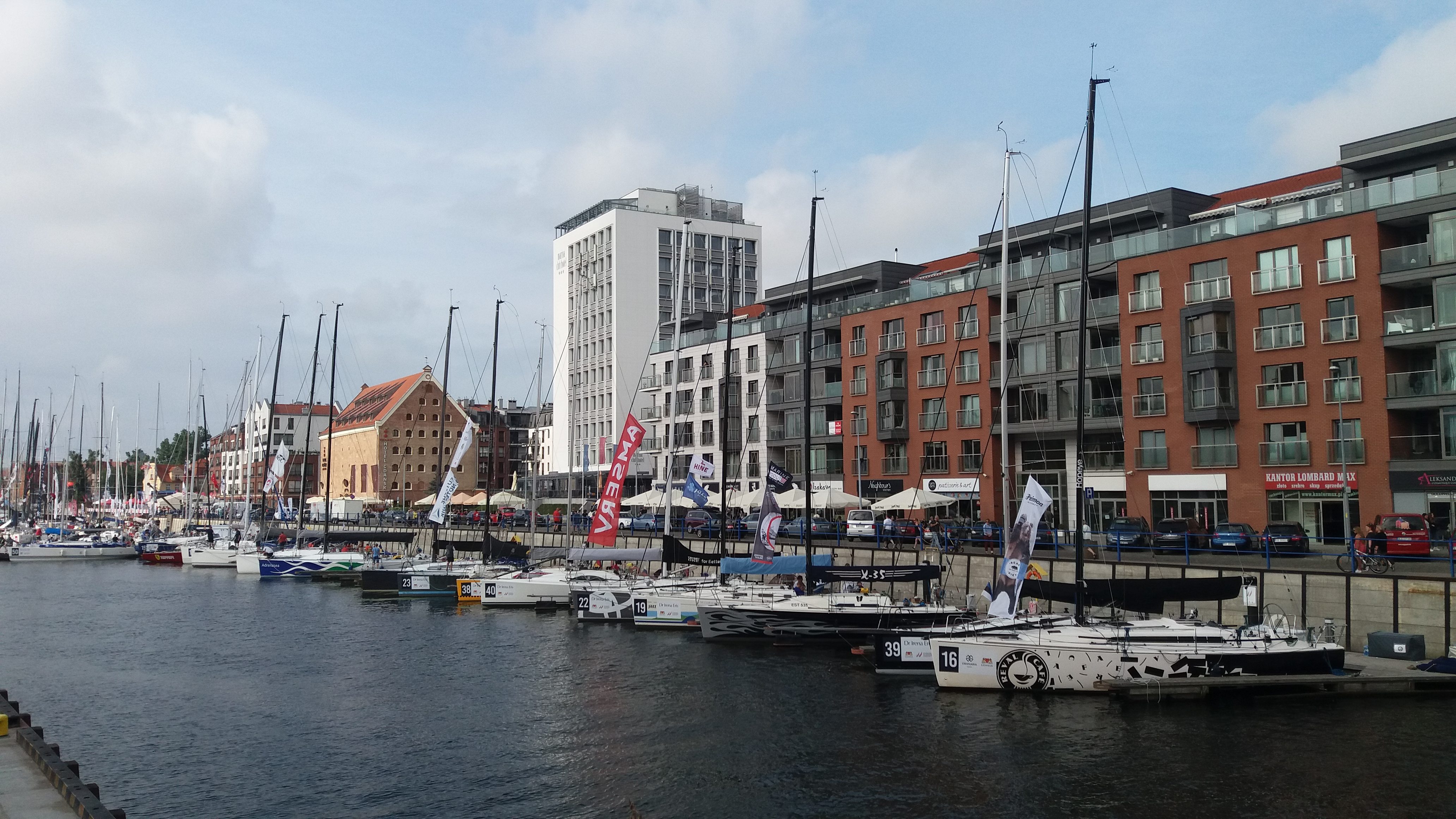 Szafarnia Street in Gdański (view from Stągiewna Street)